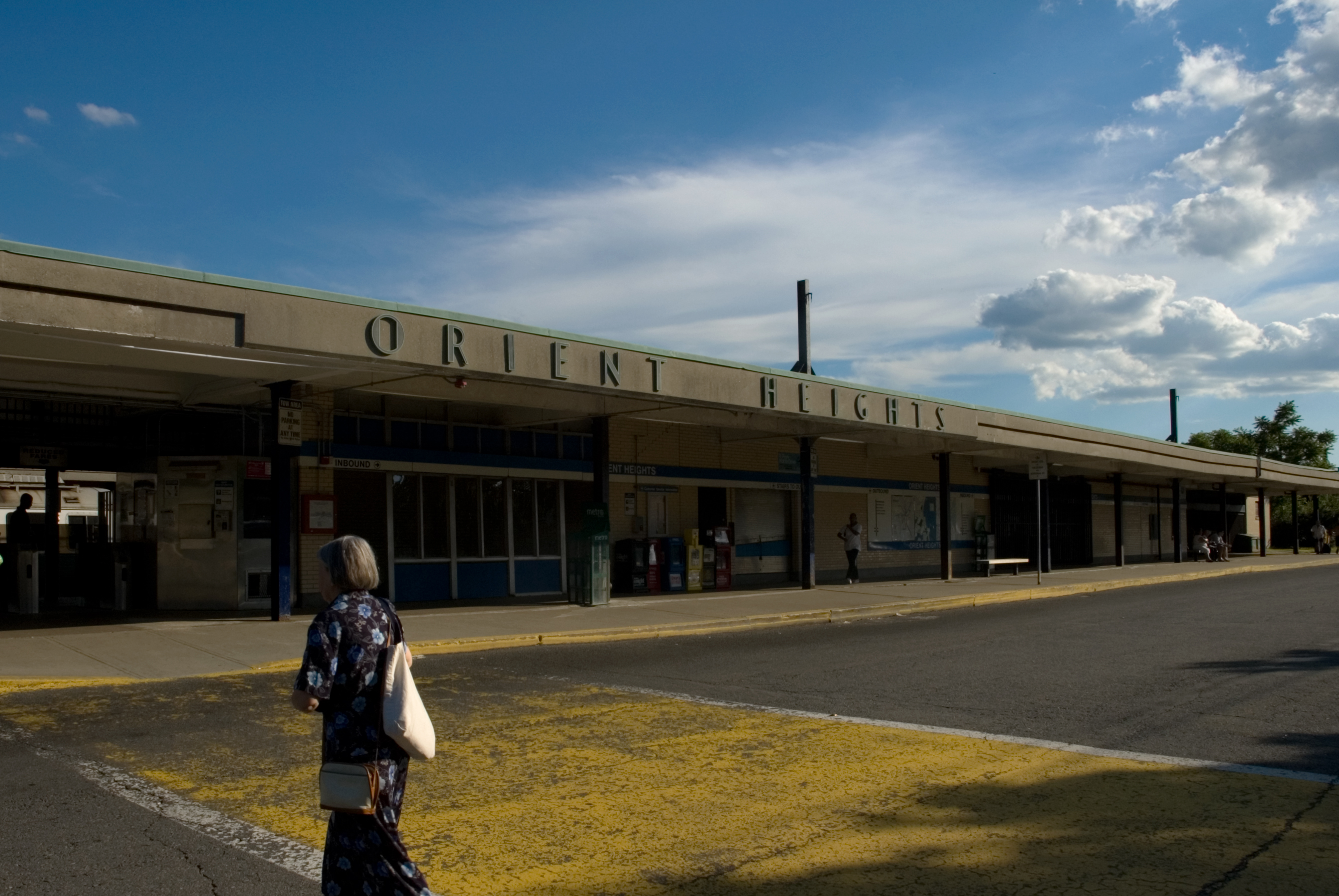 MBTA Blue Line station at Orient Heights